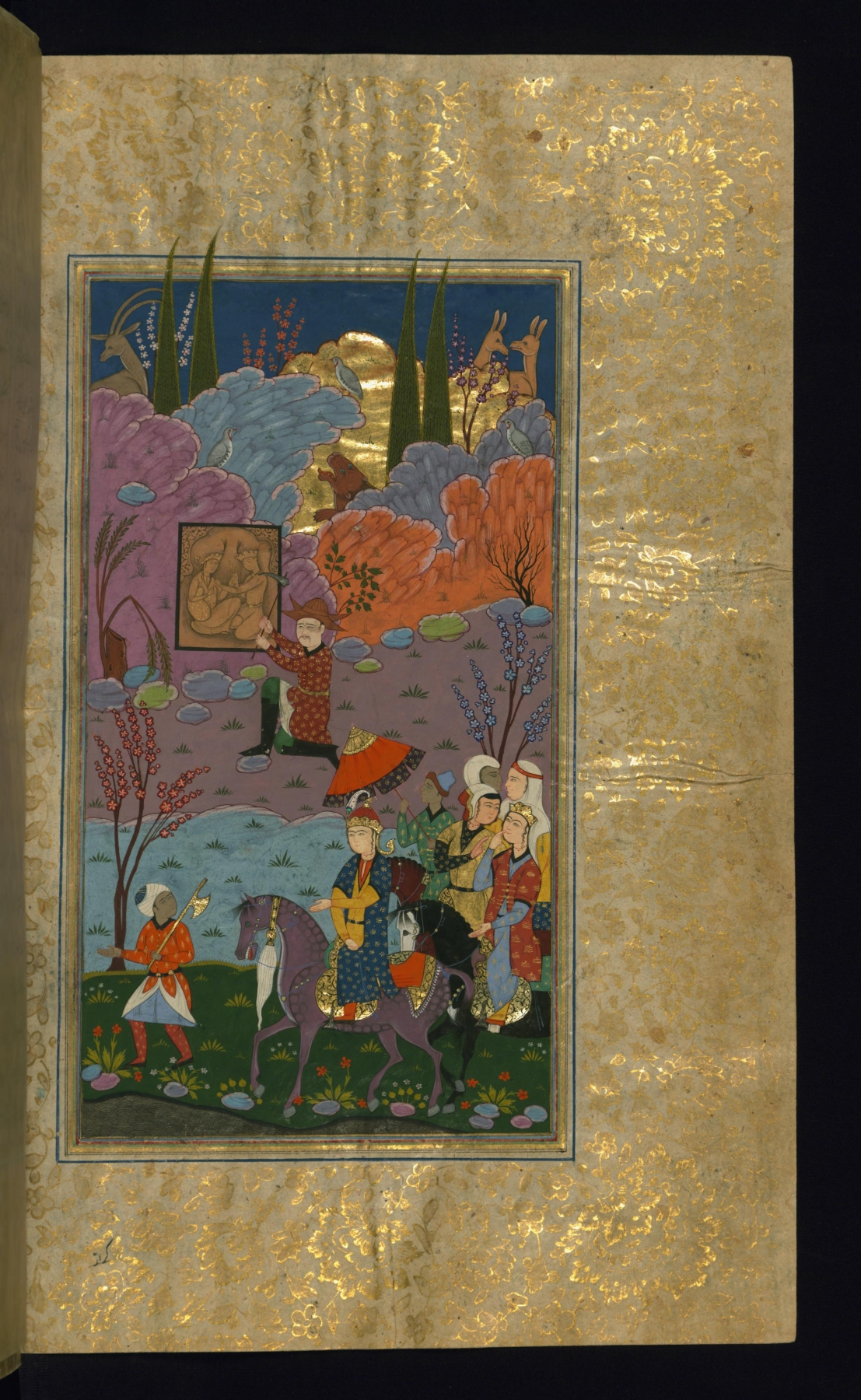 In this folio from Walters manuscript W.607, Farhad carves an image of Shirin in rock.